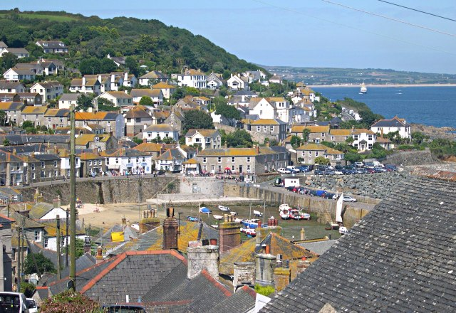 Mousehole Looking over the town and harbour from the south.